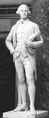 Statue of Richard Stockton (Continental Congressman)